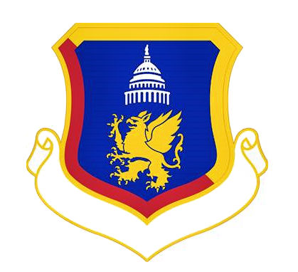 Emblem of the 316th Wing